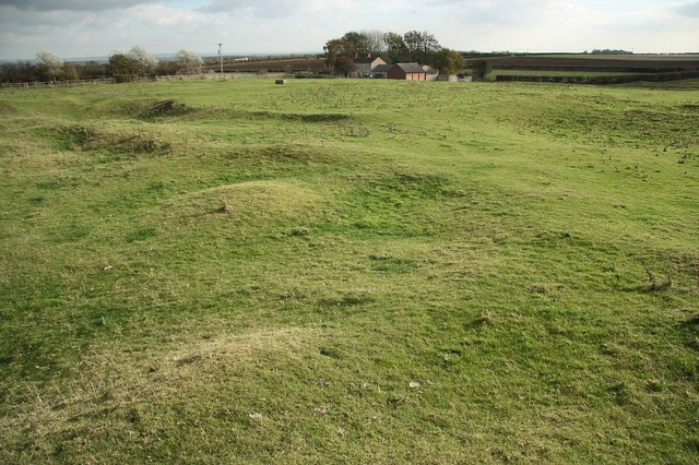 Gainsthorpe Deserted Medieval Village Undulations in the field mark the site of the deserted village of Gainsthorpe, the foundations of over 100 buildings were still extant in 1697, though there's nothing above ground today. It lies just 400m west of the Roman road Ermine Street and was supposed to be a Roman settlement until a pioneering aerial photography flight in 1925 disproved this assumption